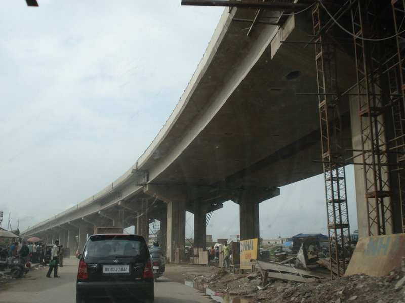 Zirakpur Flyover under-construction